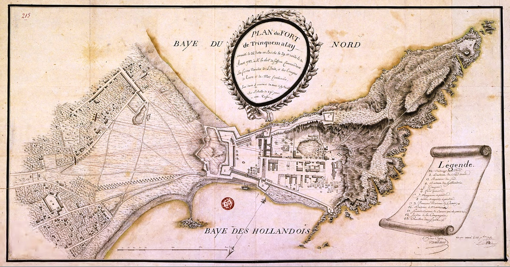 "Plan of Fort Trincomale, made by the Chevalier de Suffren in August 1782"